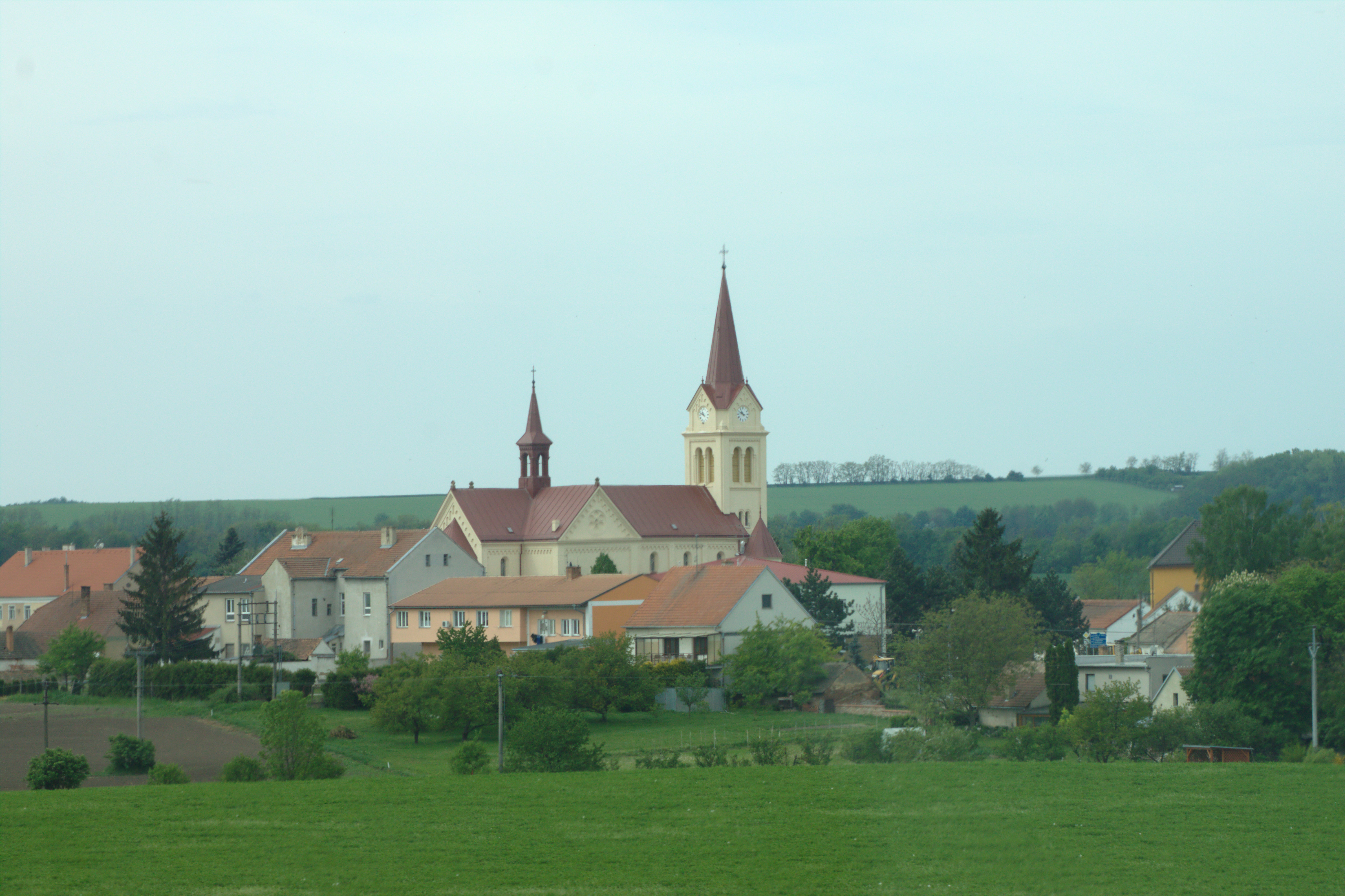 Distant view of the town of Jiřice u Miroslavi, South Moravian Region, CZ